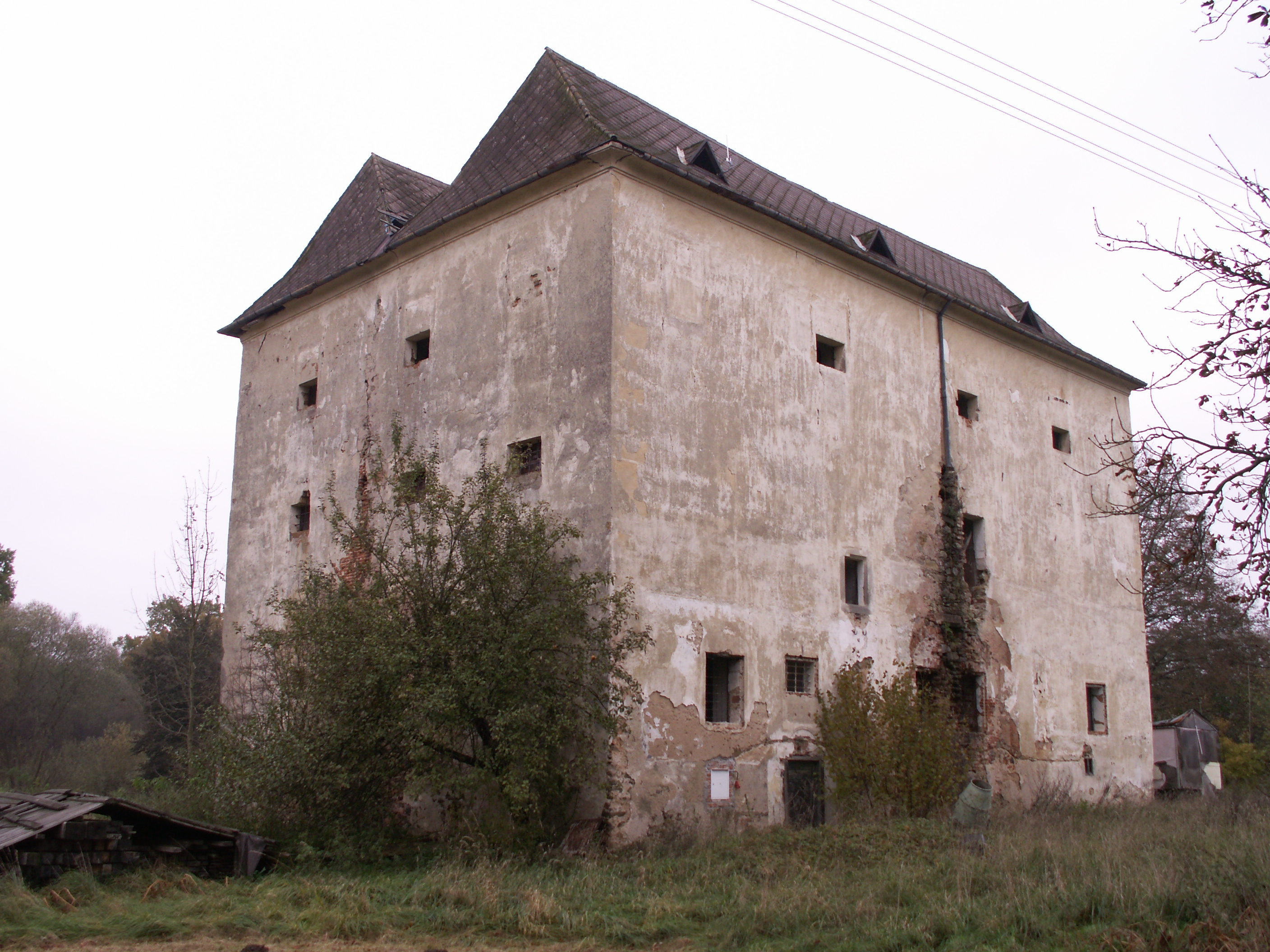 Hamr (Val), okres Tábor, tvrz z počátku 16. století, později (1696) přebudována na zámek